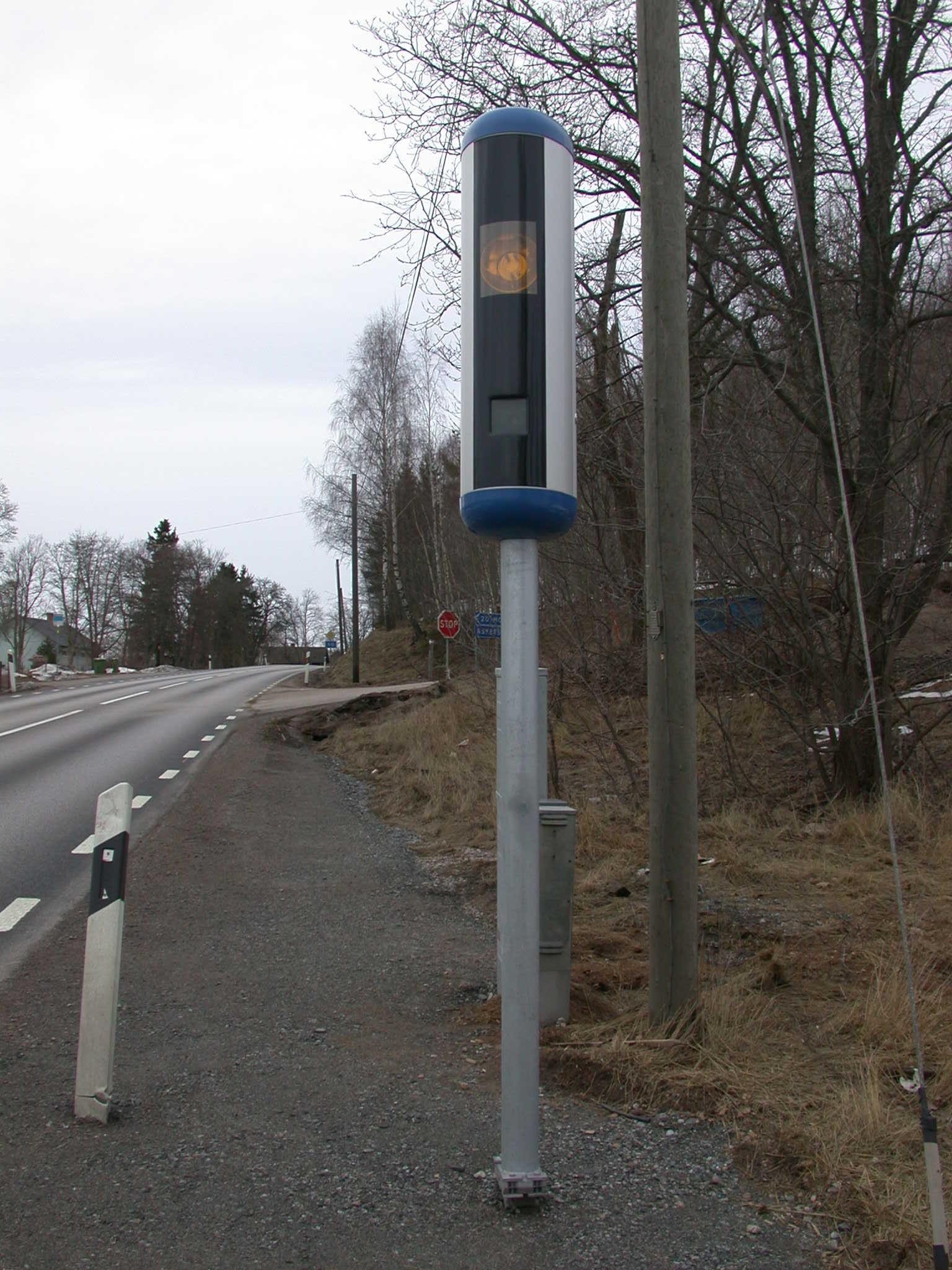 Newer model of road-rule enforcement camera (speed camera), Sweden. Designed by Myra Industriell Design. Photo: Riggwelter, March 26, 2006.